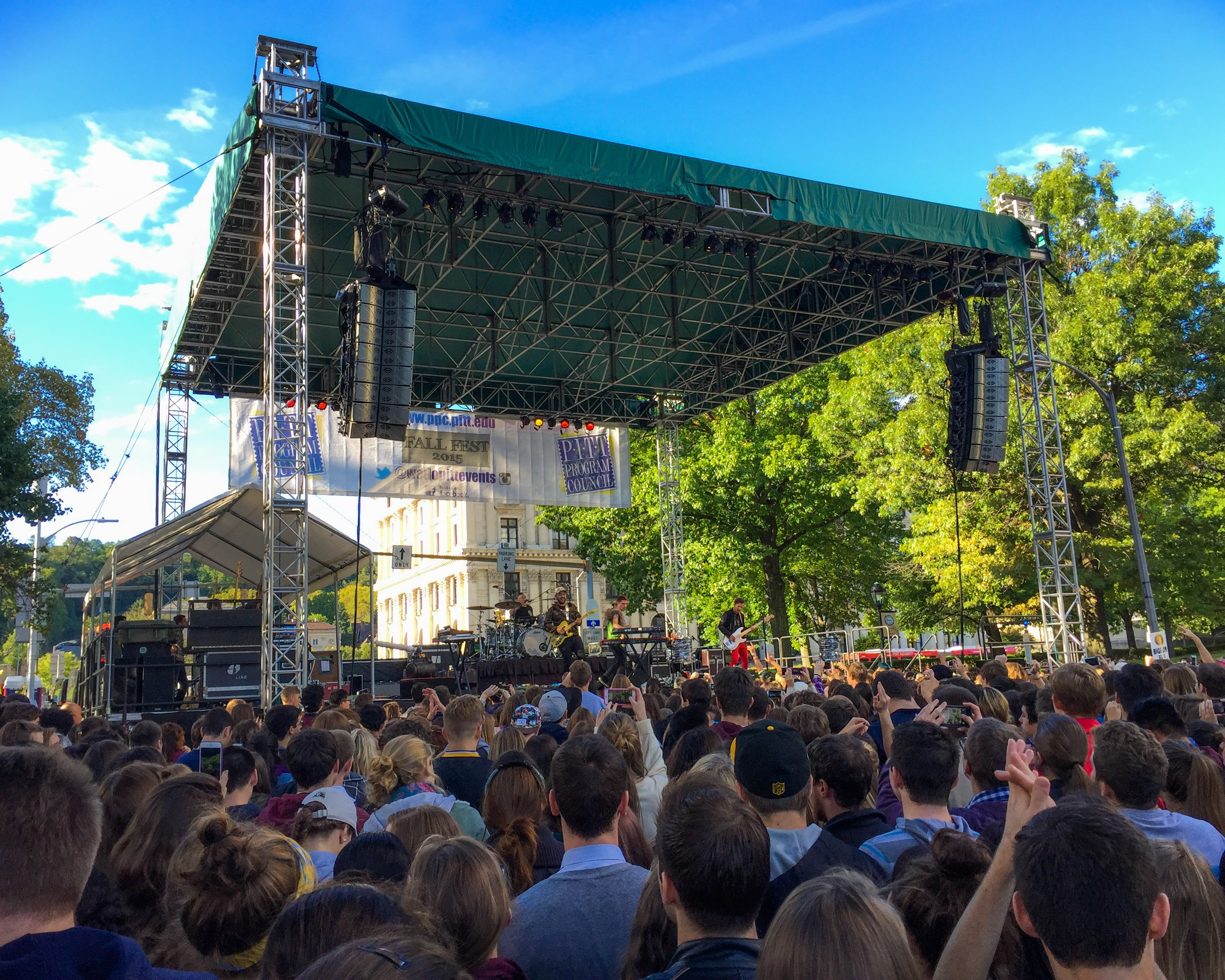 Walk the Moon performs at University of Pittsburgh Fall Fest